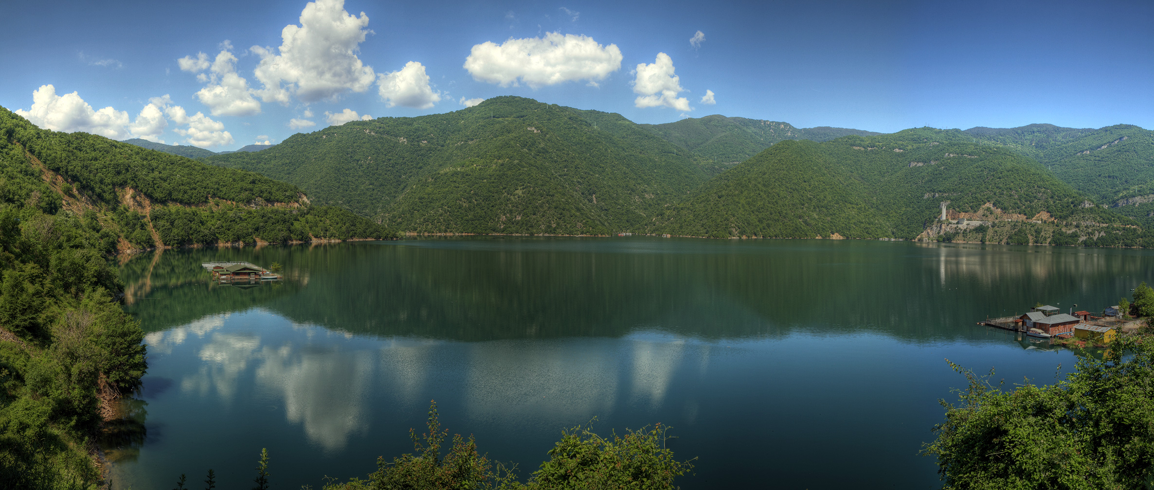 Panoramic view of Vacha Dam reservoir